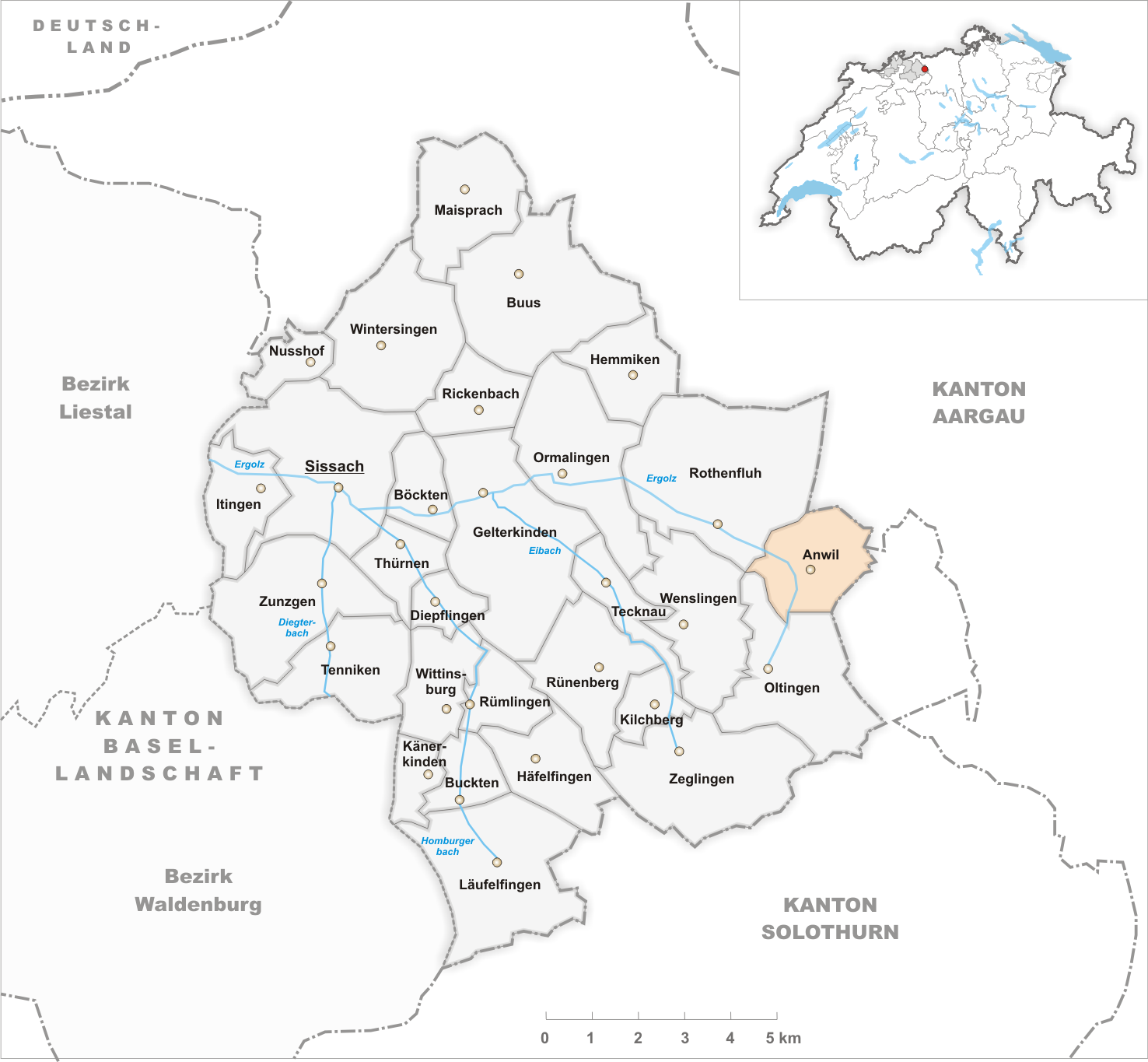 Municipality Anwil